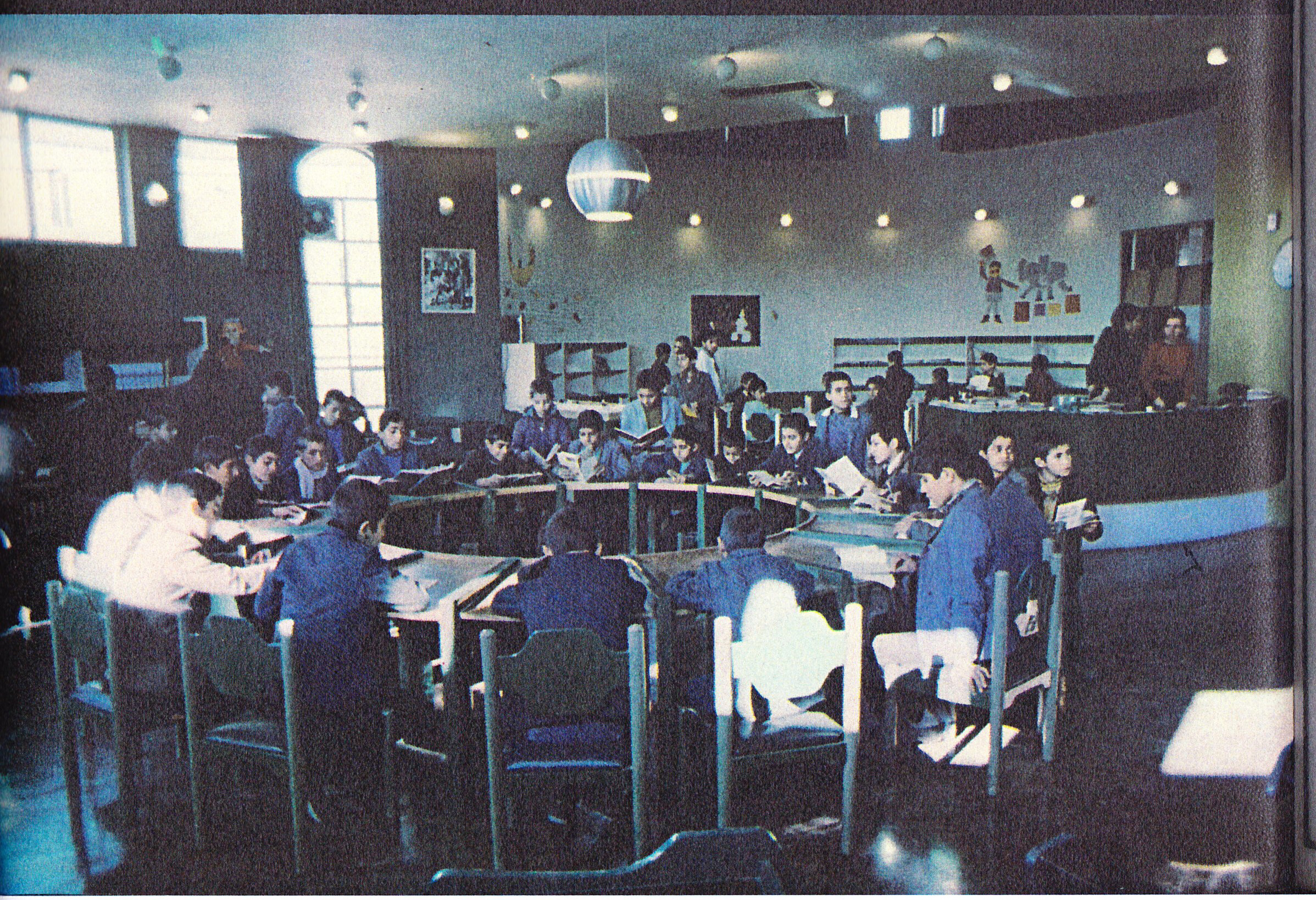 Reading room of Abbasy library South of Tehran